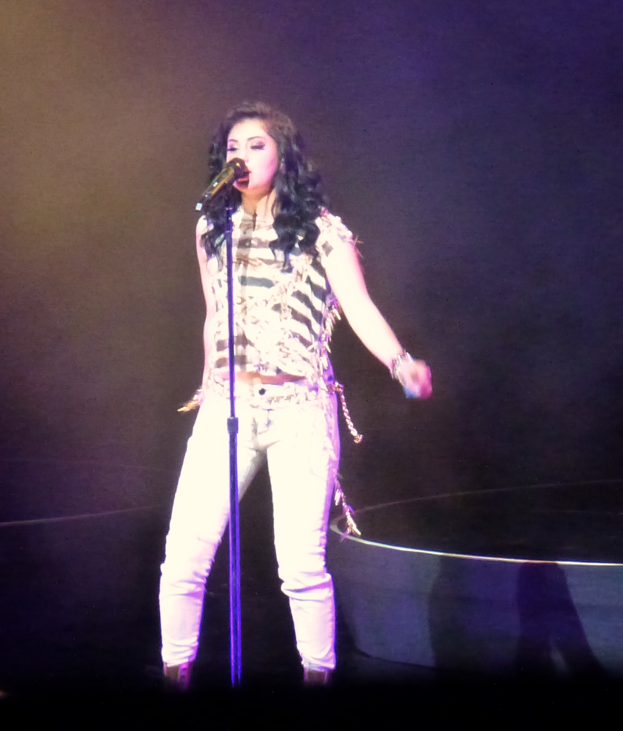 Pop rock singer Jena Irene Asciutto performing at Wolf Trap in Vienna, Virginia during the 2014 American Idol summer tour.